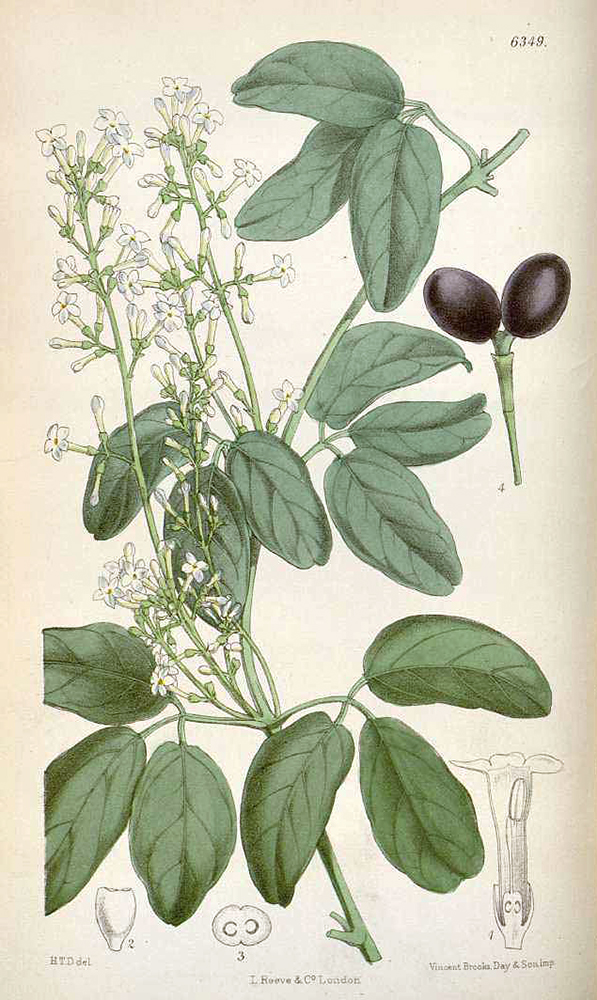 Illustration of Jasminum didymum by Harriet Anne Hooker Thiselton-Dyer, ser. 3, vol. 34, t. 6349, 1878.